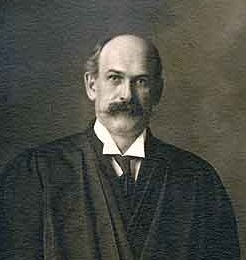 Justice F. H. Rudkin of the 1910 Washington Supreme Court.